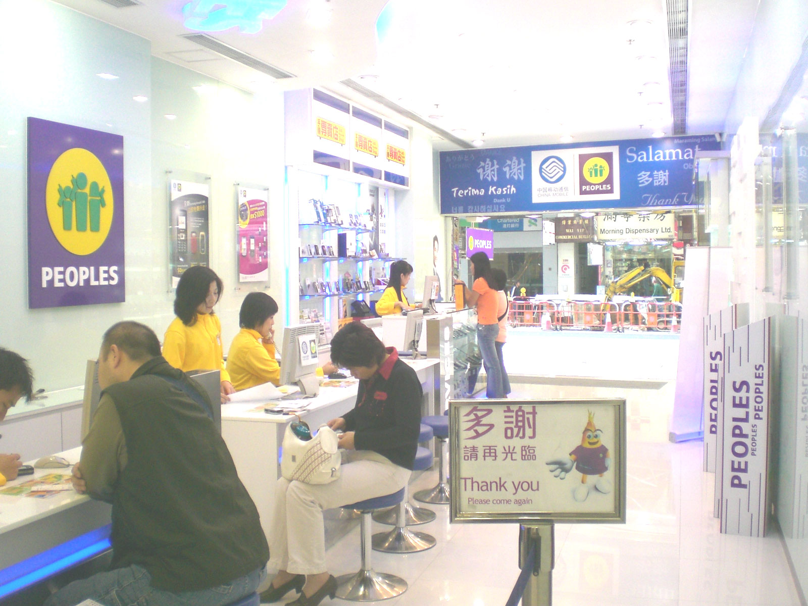 Peoples, 中國移動萬眾電話有限公司 商店, 德輔道中, Central, Hong Kong